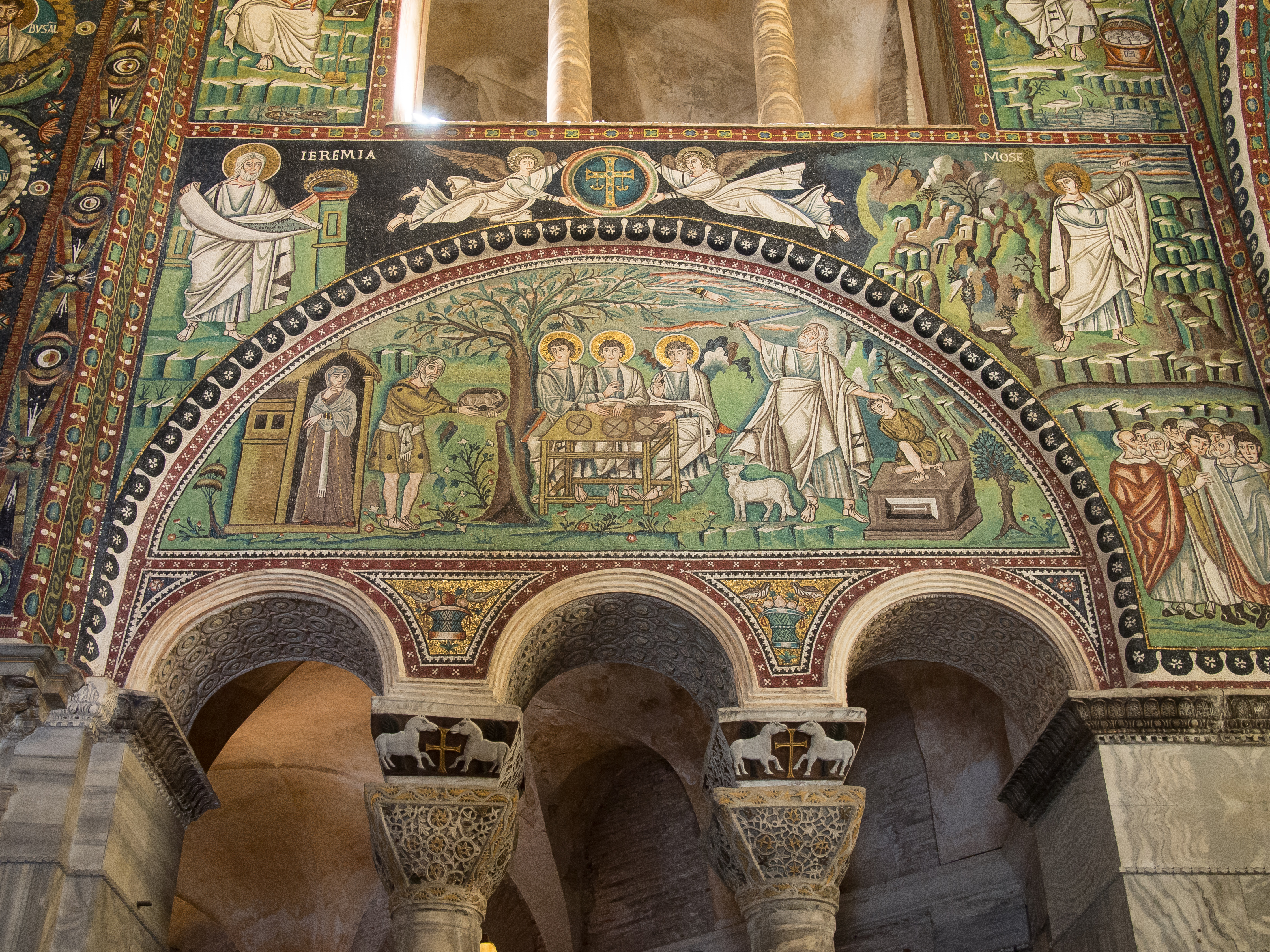 Ravenna - Basilica of San Vitale - mosaic